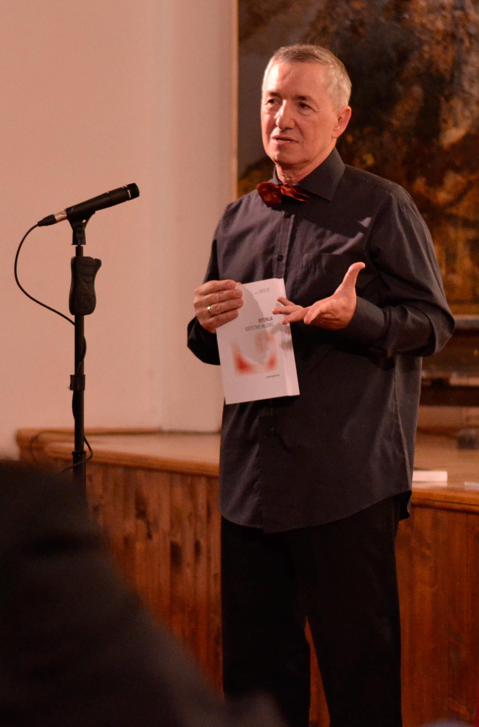 Portrait